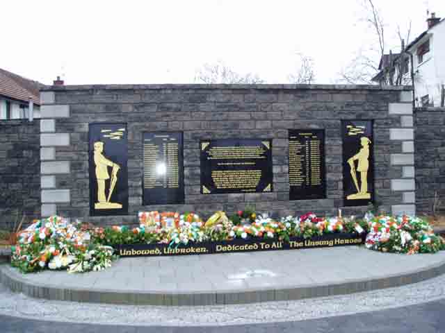 Memorial, Ballymurphy - This memorial is in Ballymurphy to commemorate all the people of Ballymurphy that were killed during the troubles